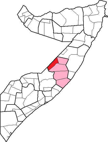 Location of the Abudwak (Cabudwaaq) district in the Galguduud region, Somalia. Boundaries reflect those endorsed by the Republic of Somalia in 1986.